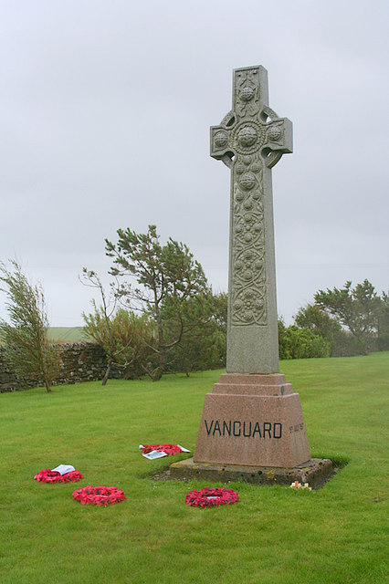 Monument to the casualties of HMS Vanguard. This monument was erected in memory of the crew of HMS Vanguard by friends and relations of the sailors.